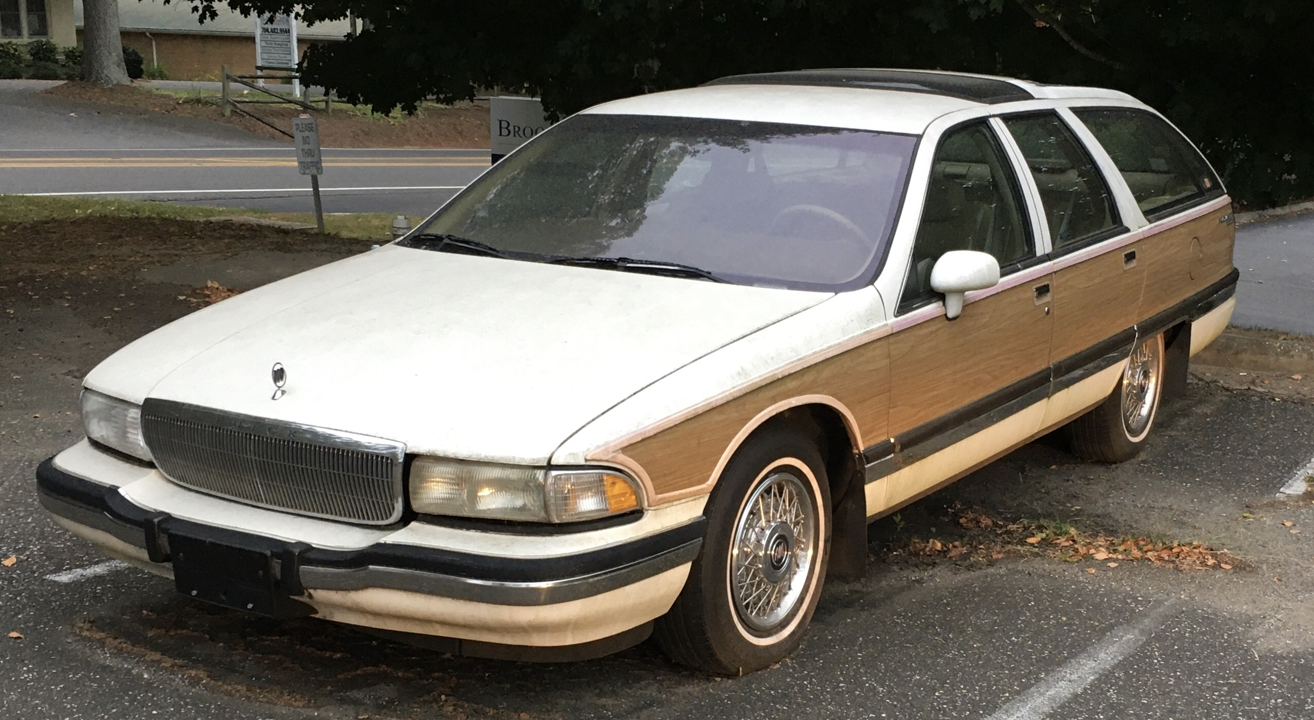 The (amazing) Buick Roadmaster wagon